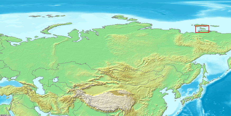 Location of Lyakhovskiy Islands